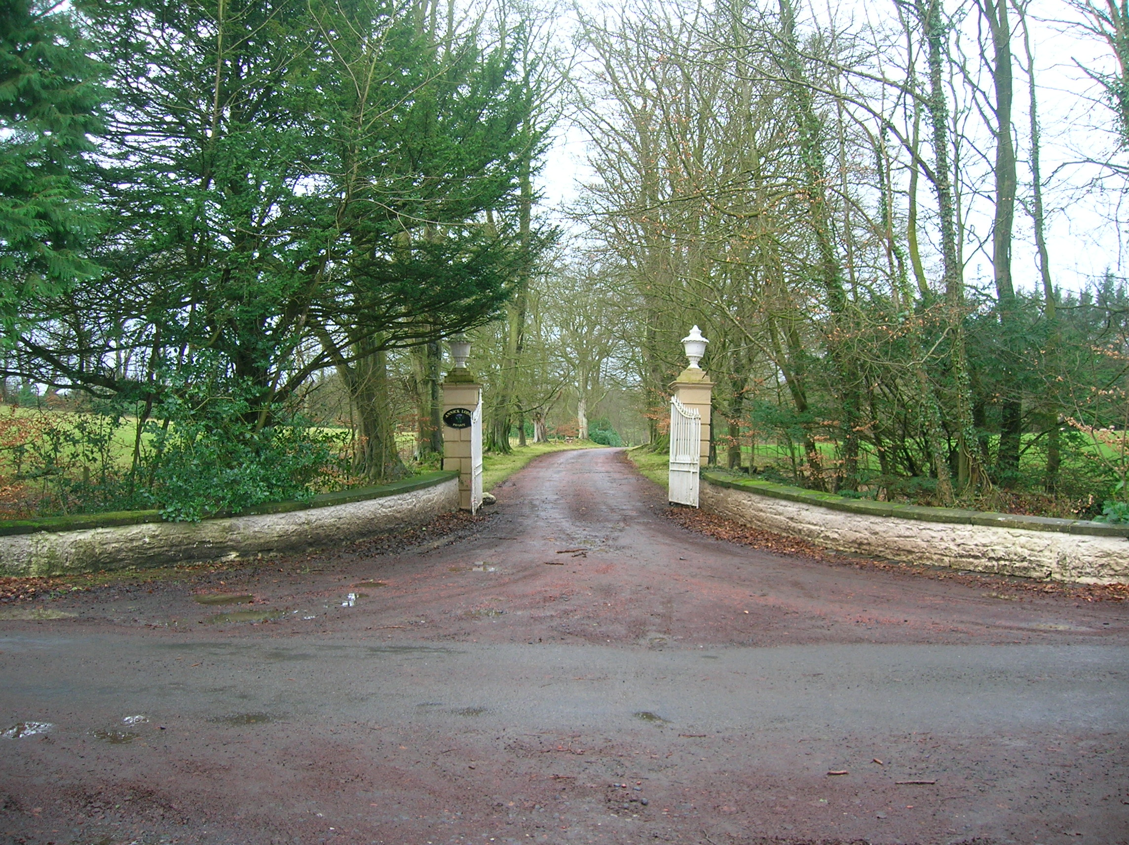 Annick Lodge gates, Perceton, North Ayrshire, Scotland.